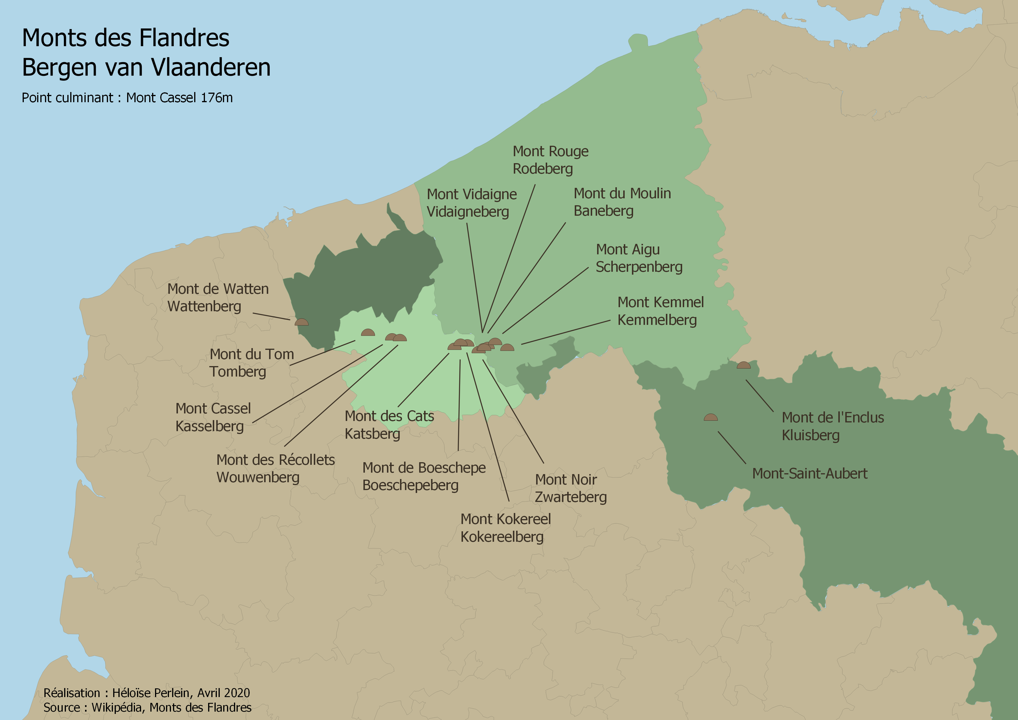 The Flanders mounts are Franco-Belgian. There are at least fifteen.